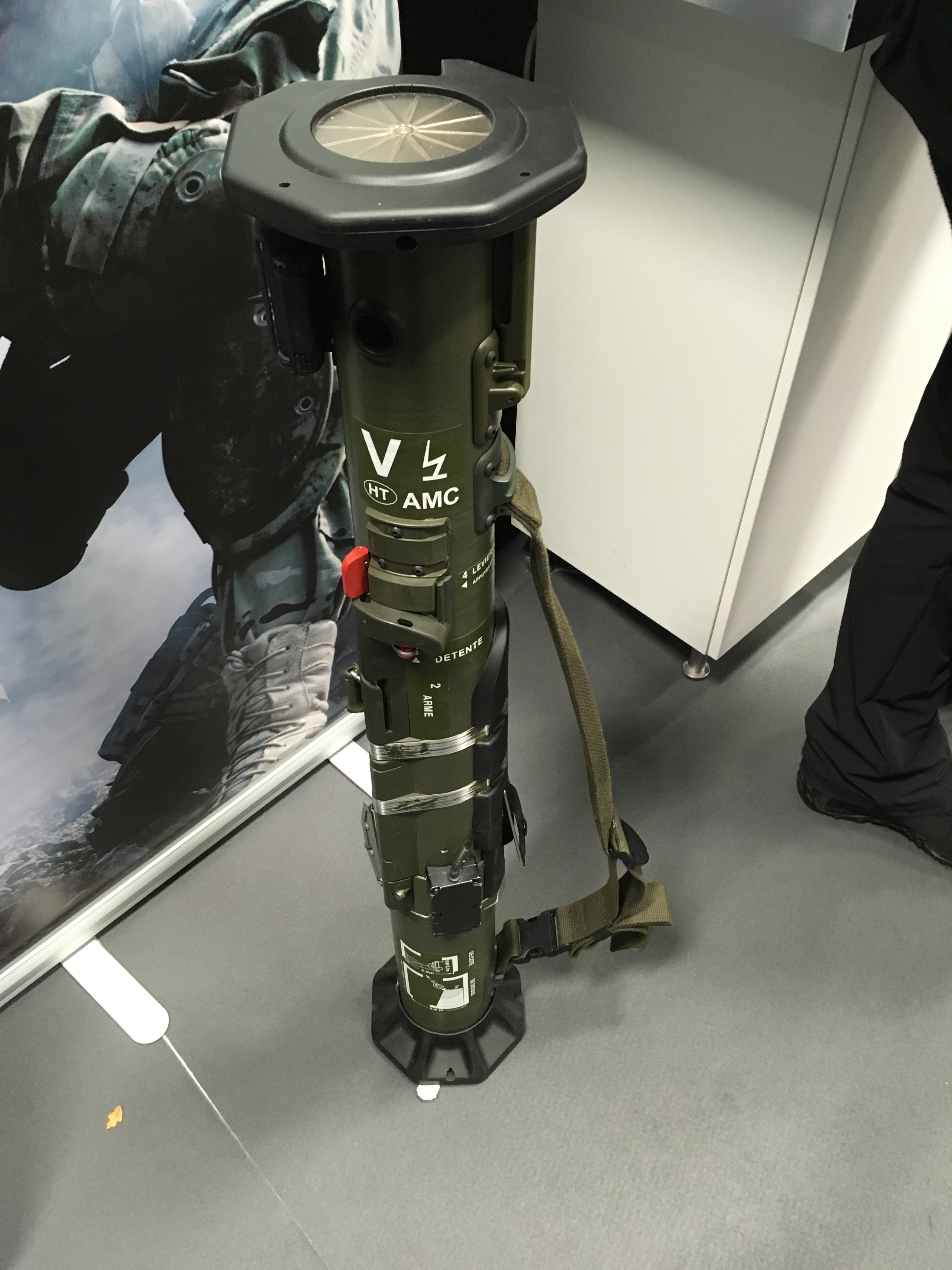 AT4 84 mm weapon SAAB